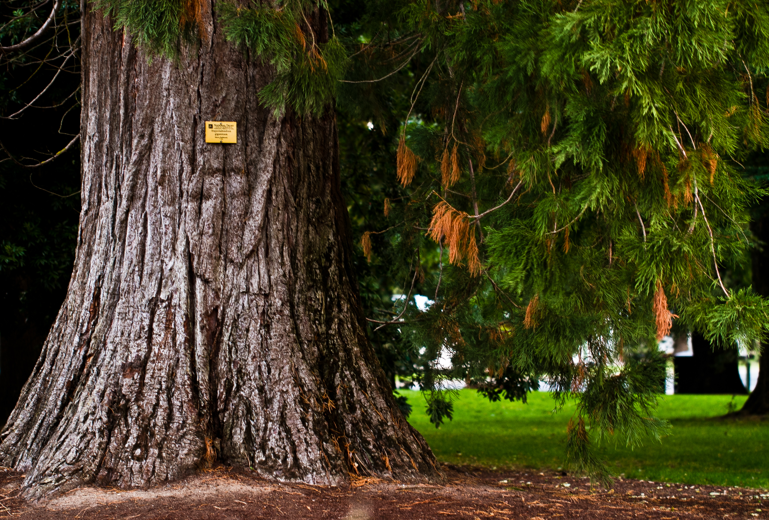 An old Sequoiadendron giganteum tree at Ballarat botanical garden